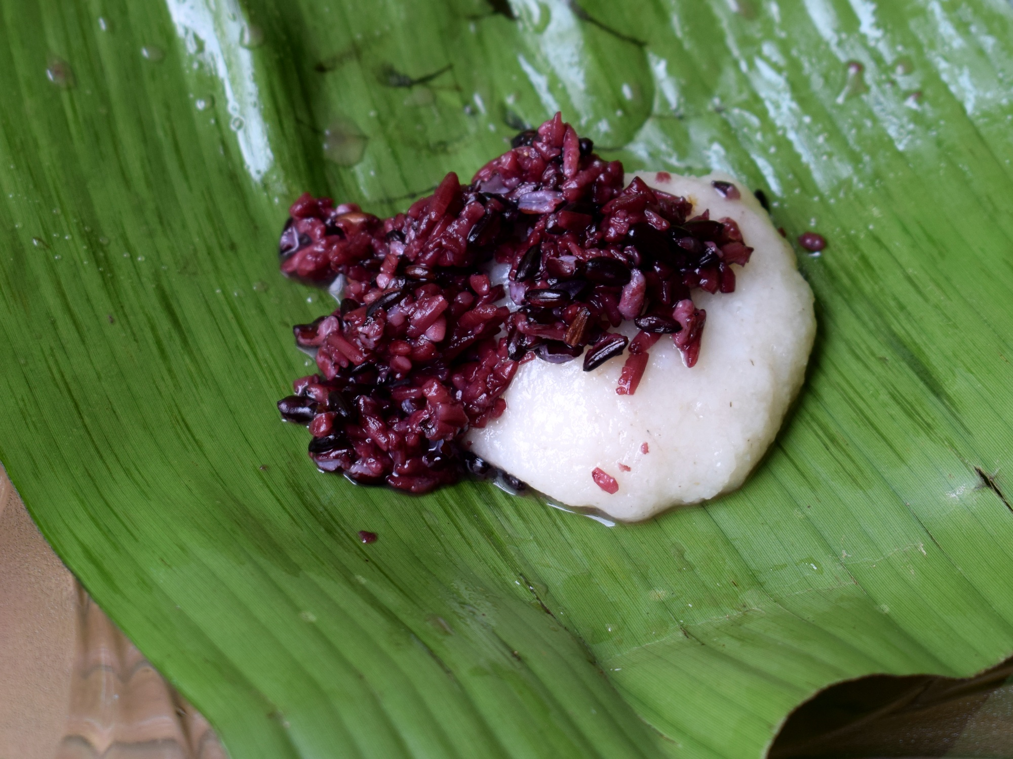 Tape uli, ready to eat: tape ketan (cooked and fermented black sticky rice) on a piece of uli (cooked white sticky rice with coconut, mashed and wrapped in banana leaf)